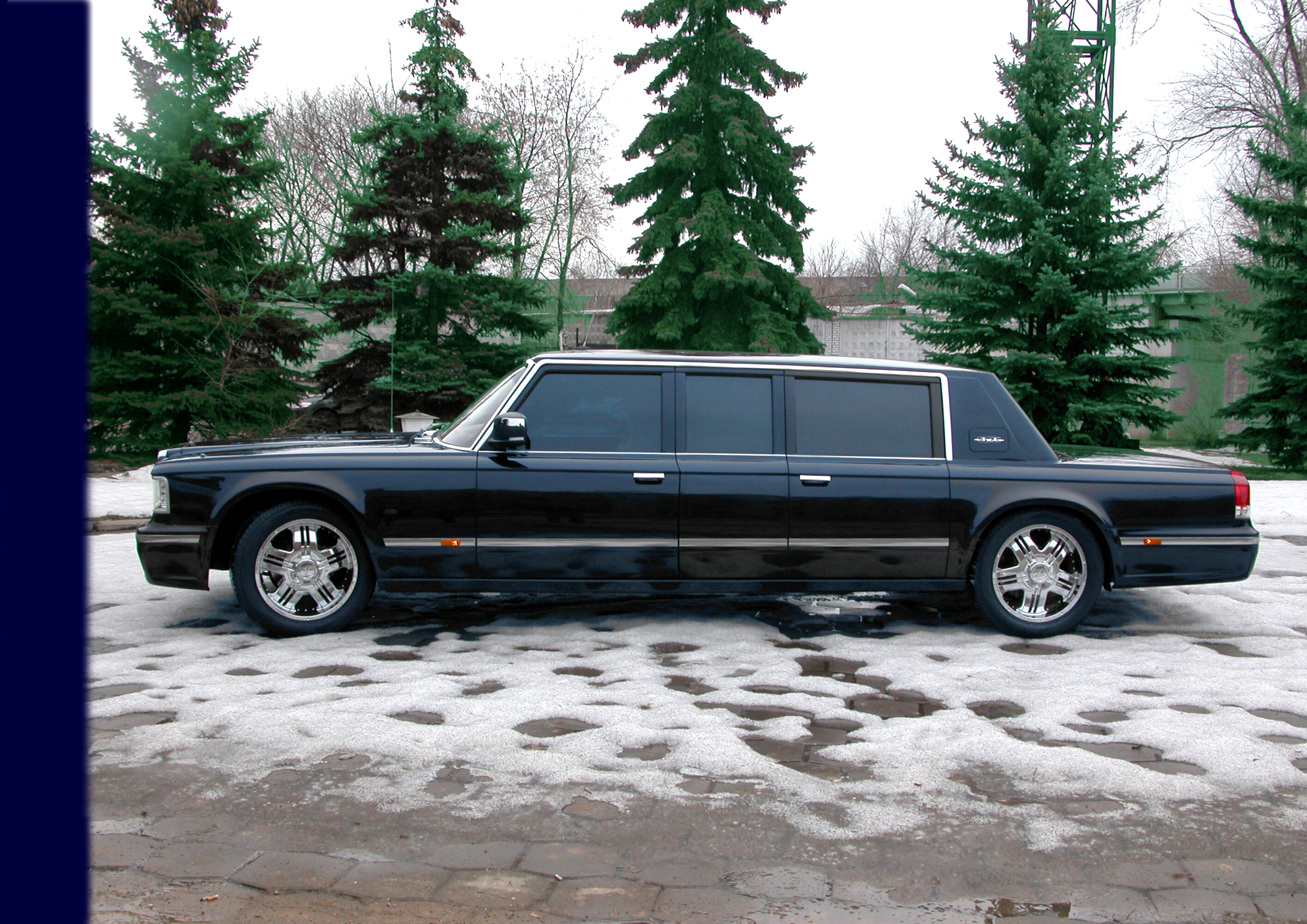 ZIL-4112R on the Kremlin spruce background